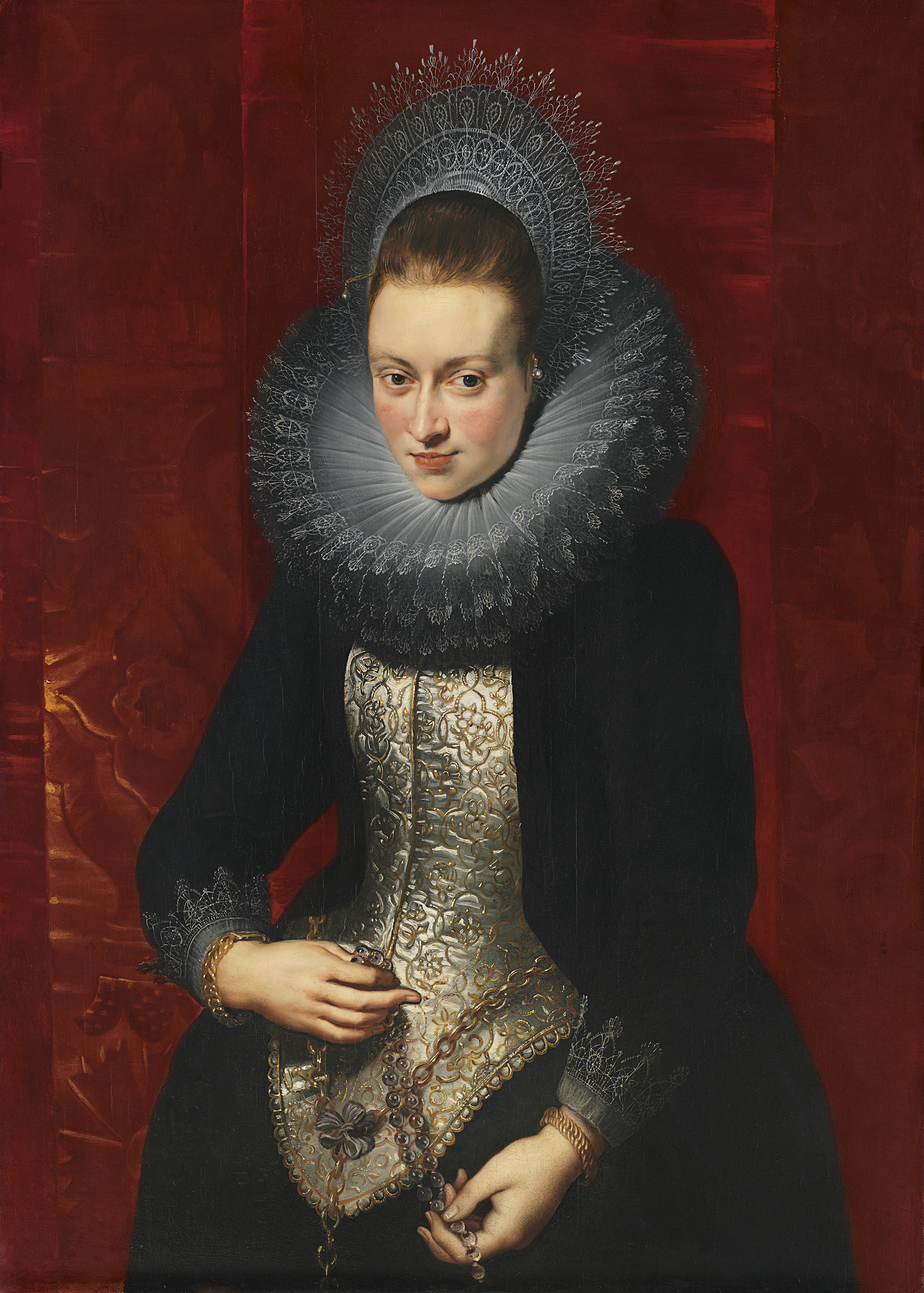 "Portrait of a Young Woman with a Rosary", oil on wood, belonging to Thyssen-Bornemisza Museum in Madrid, photographed at the exhibition "Rubens and His Time" in the Louvre-Lens Museum.